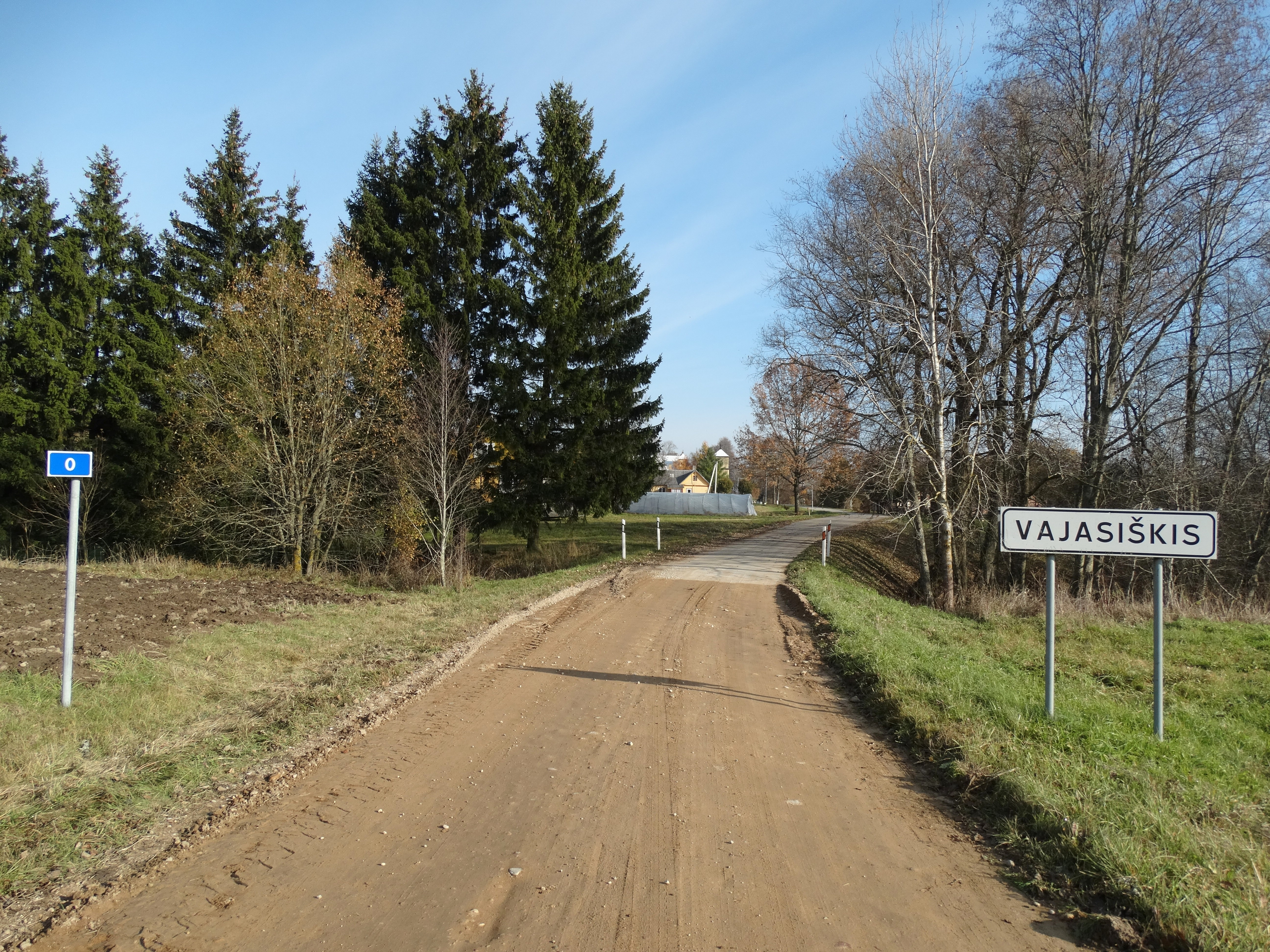 Vajasiškis, Zarasai district, Lithuania